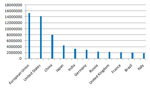 The ten largest economies in the world and the European Union in 2008, measured in GDP PPP (millions of USD), according to the International Monetary Fund.